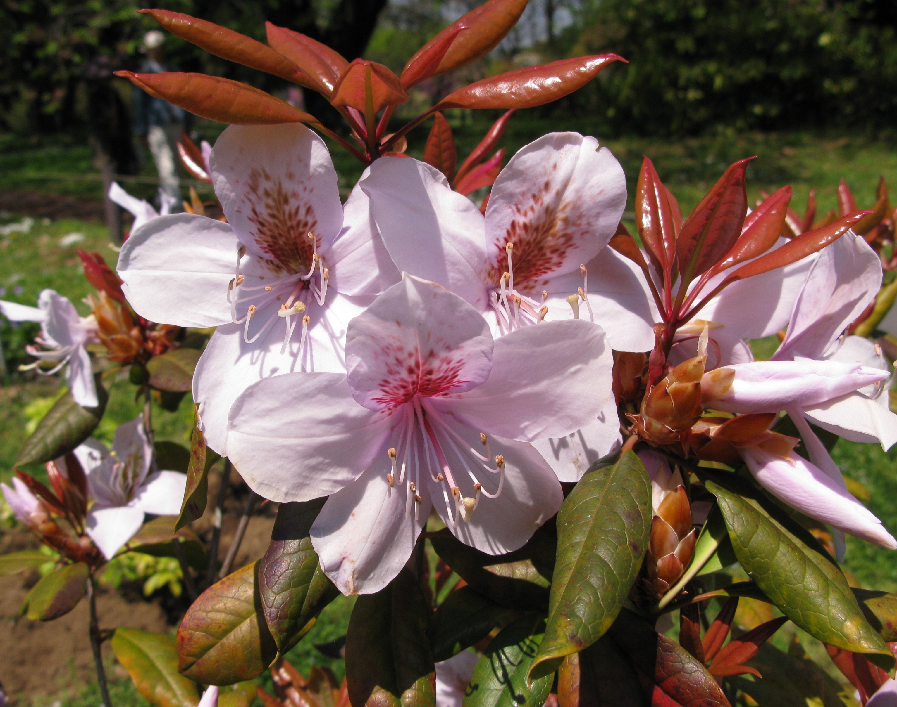 Rhododendron latoucheae, Koishikawa, Botanical Gardens, the University of Tokyo, Japan